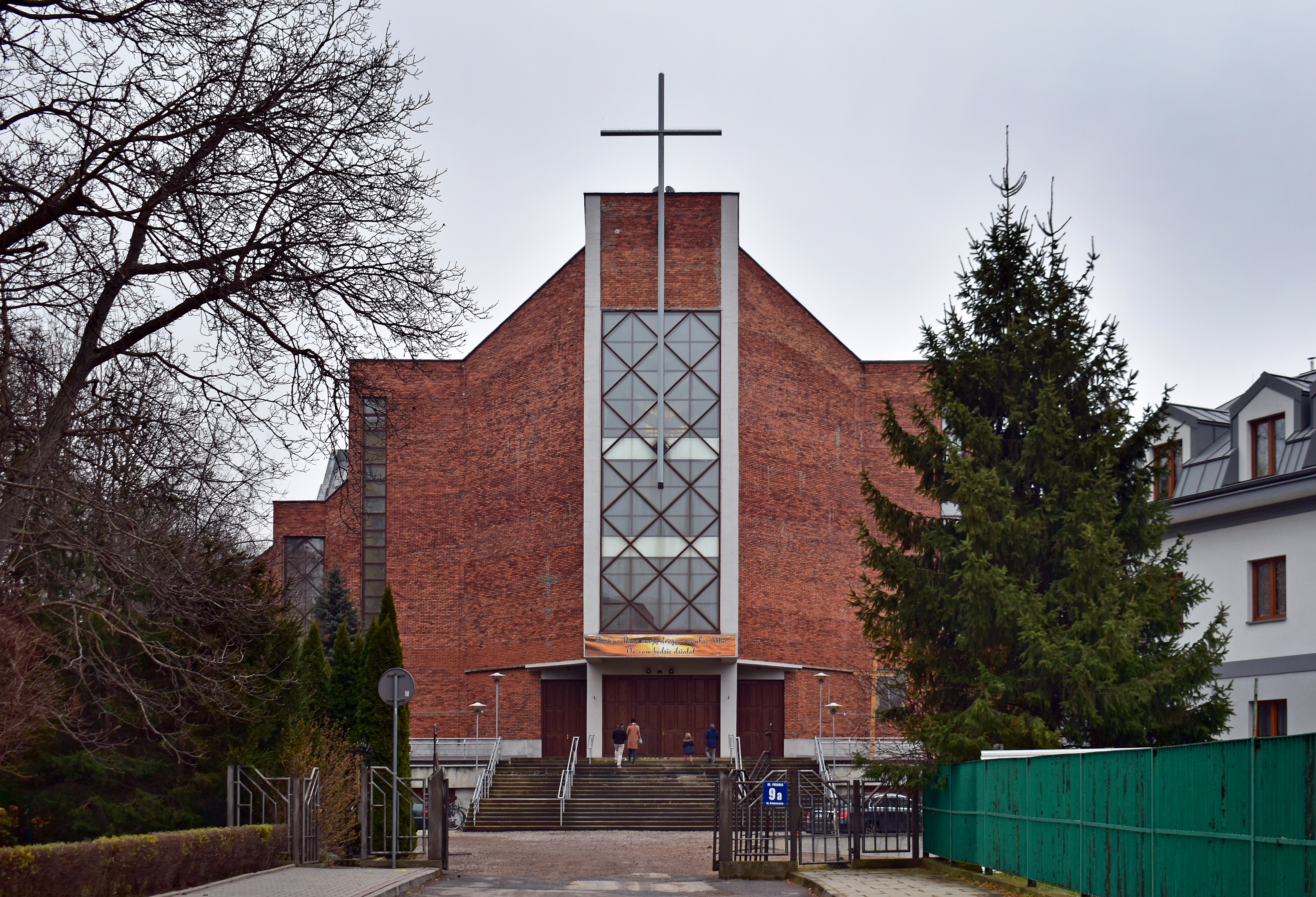 Church of St. Stanislaus of Szczepanów, 9a Polkole street, Krakow, Poland